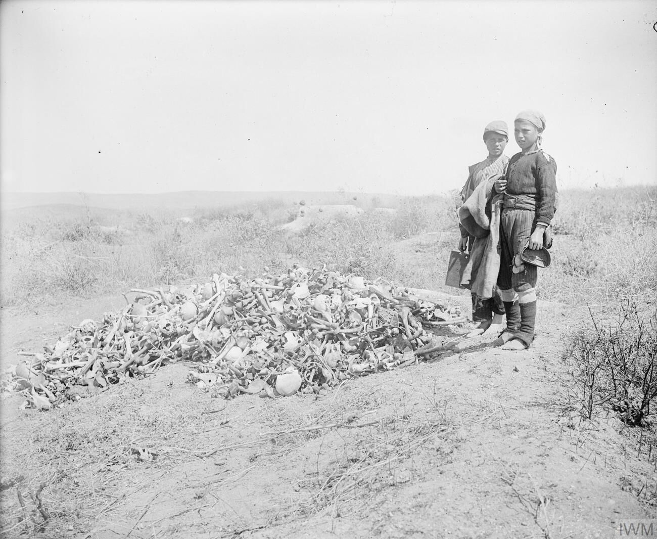 Native Greek boys standing by the bones they have collected of deceased soldiers who died during the 1915 Gallipoli Campaign on Hill 60, Anzac Cove in 1919.